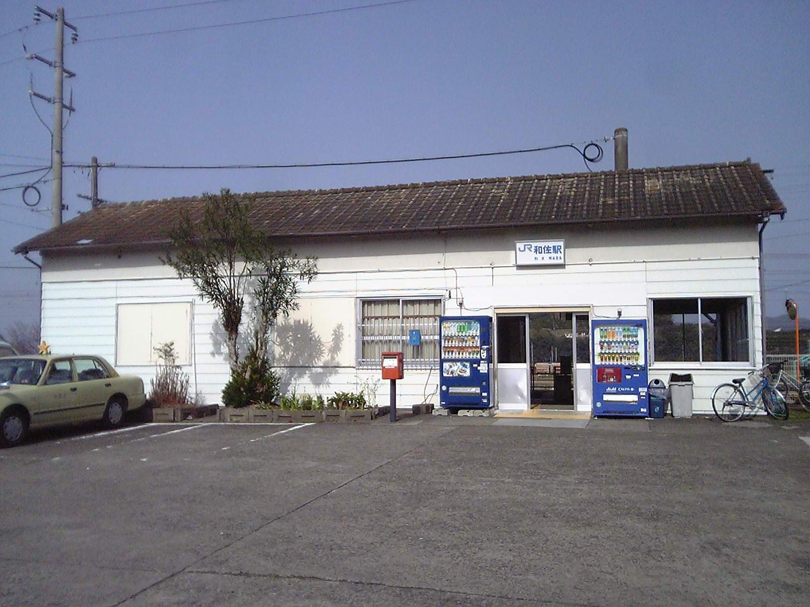 Wasa Station